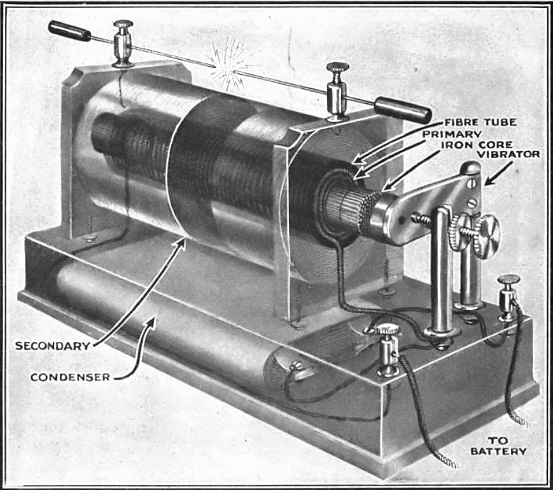 Drawing of an induction coil from a 1920 book on radio apparatus, with the outer surfaces drawn transparent, to show the construction.